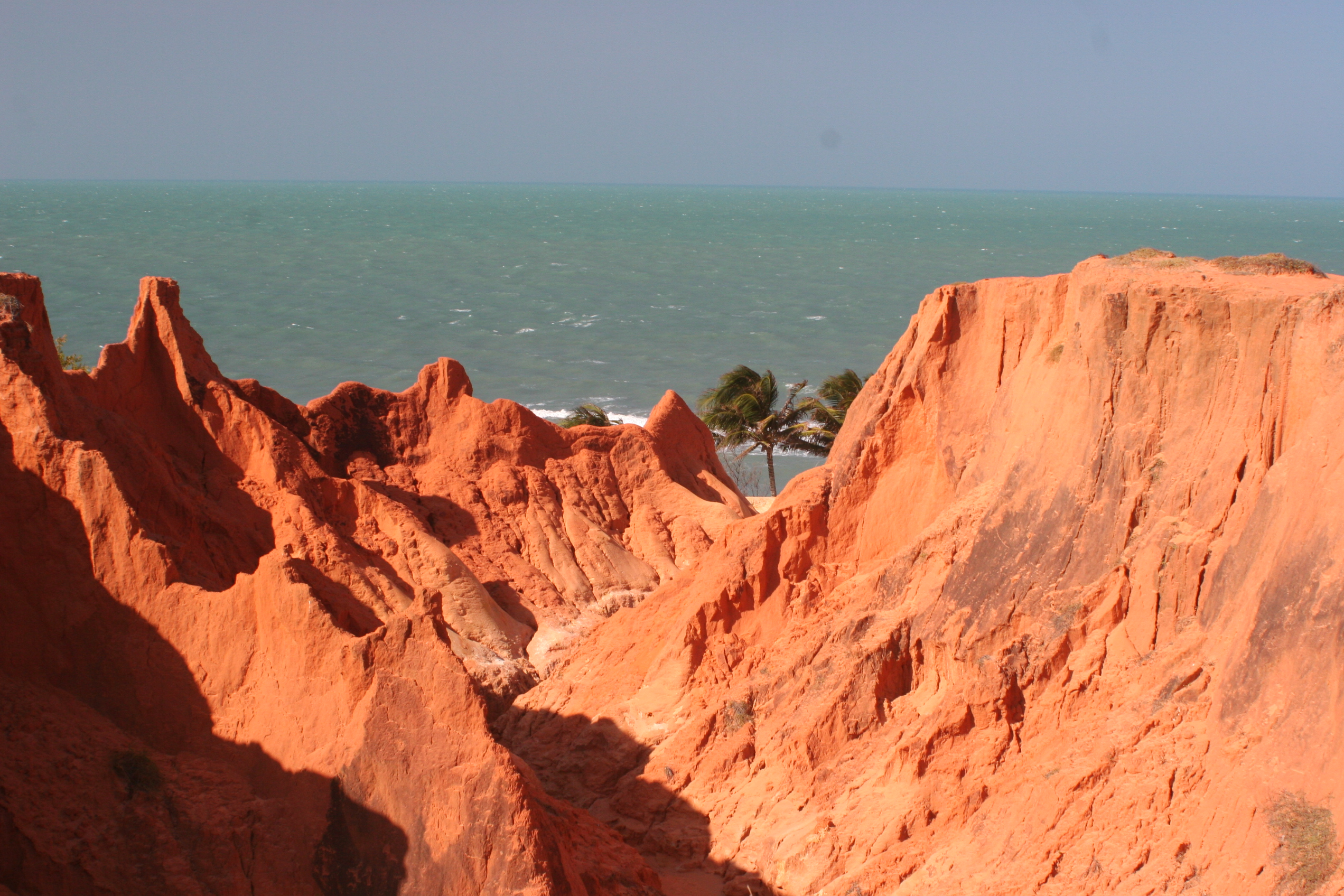 Uploaded with the Flock Browser